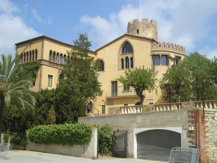 Torre Balldovina